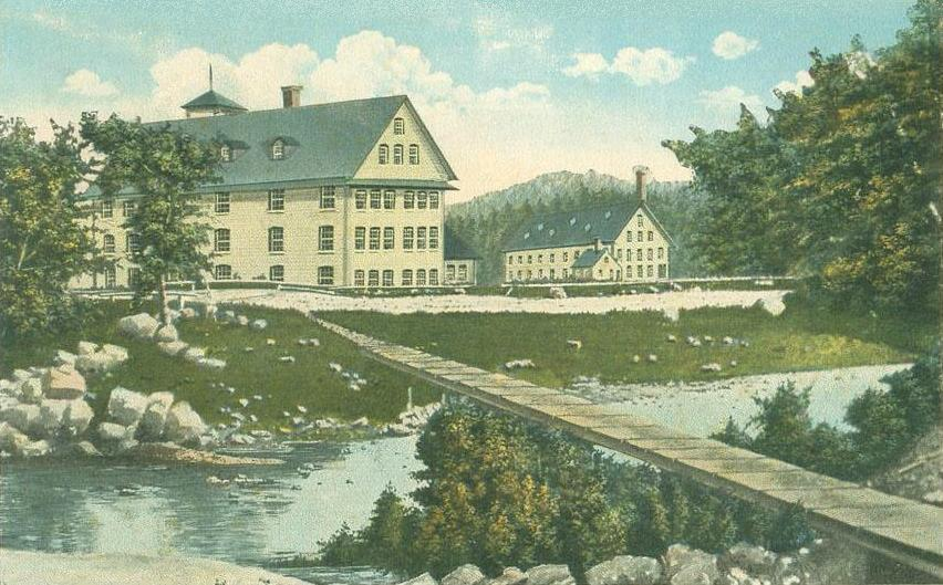 Goodall Mills (later Sanford Mills), Sanford, Maine. Established in 1867 by Thomas Goodall, Mill No. 1 employed 40 operatives manufacturing carriage robes and blankets.